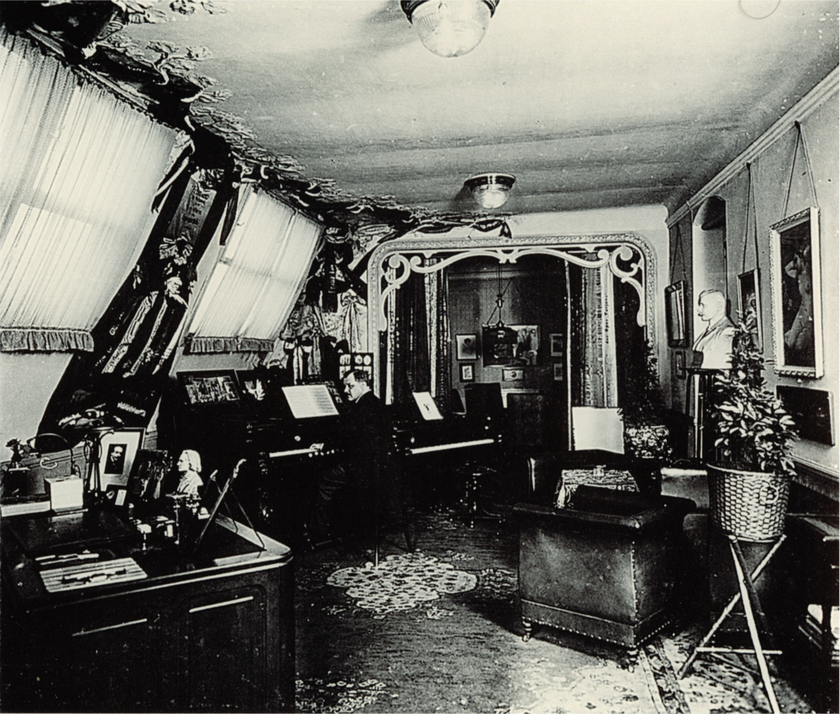 Austrian composer of Hungarian descent Franz Lehár, seen in the working room of his flat in the Theobaldgasse 16 in Vienna